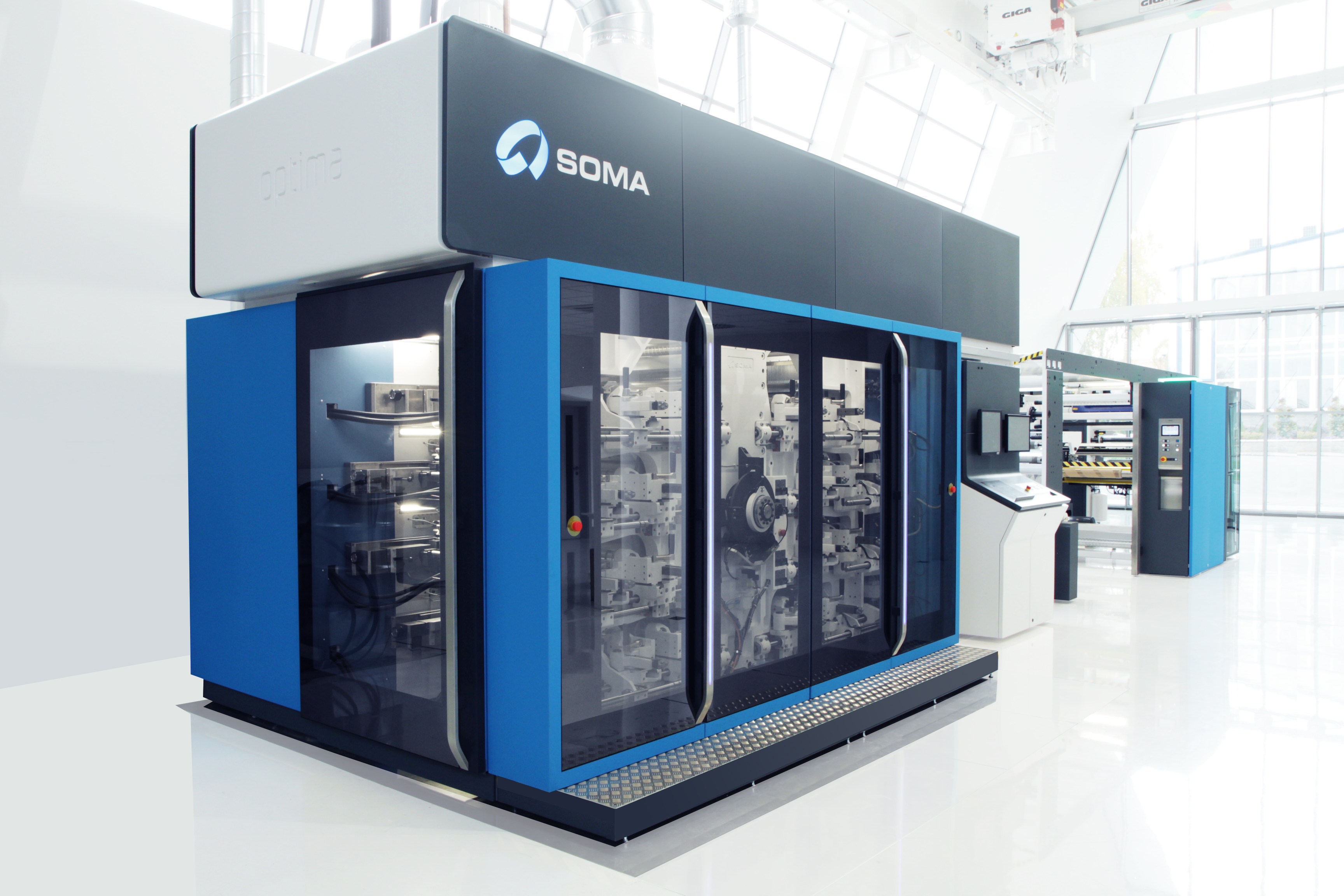 Soma OPTIMA - flexographic printing press